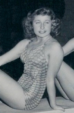 1846 Athens Athletic Club 1 & 3 Meter Board Champion Zoe Ann Olsen Press Photo